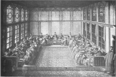 The source is scanned from Istanbul (1996). The original art is dated to before the 19th century. If book is concerned, we claim fair use. Category:Ottoman Empire